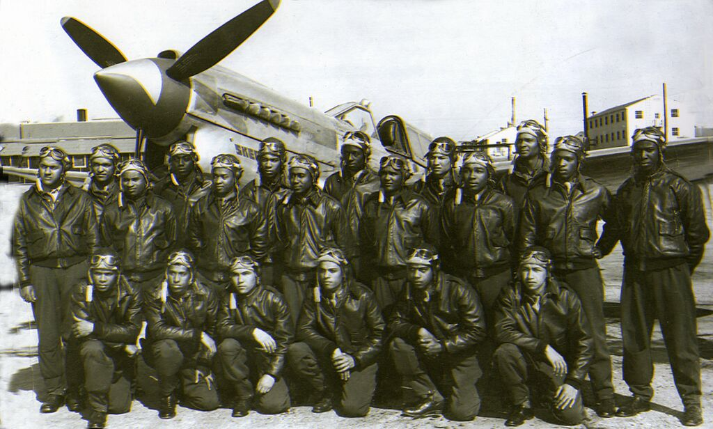 Marion Raymond Rodgers is 3rd from Left.